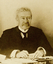 Former United States Representative from Pennsylvania Marlin Edgar Olmsted.